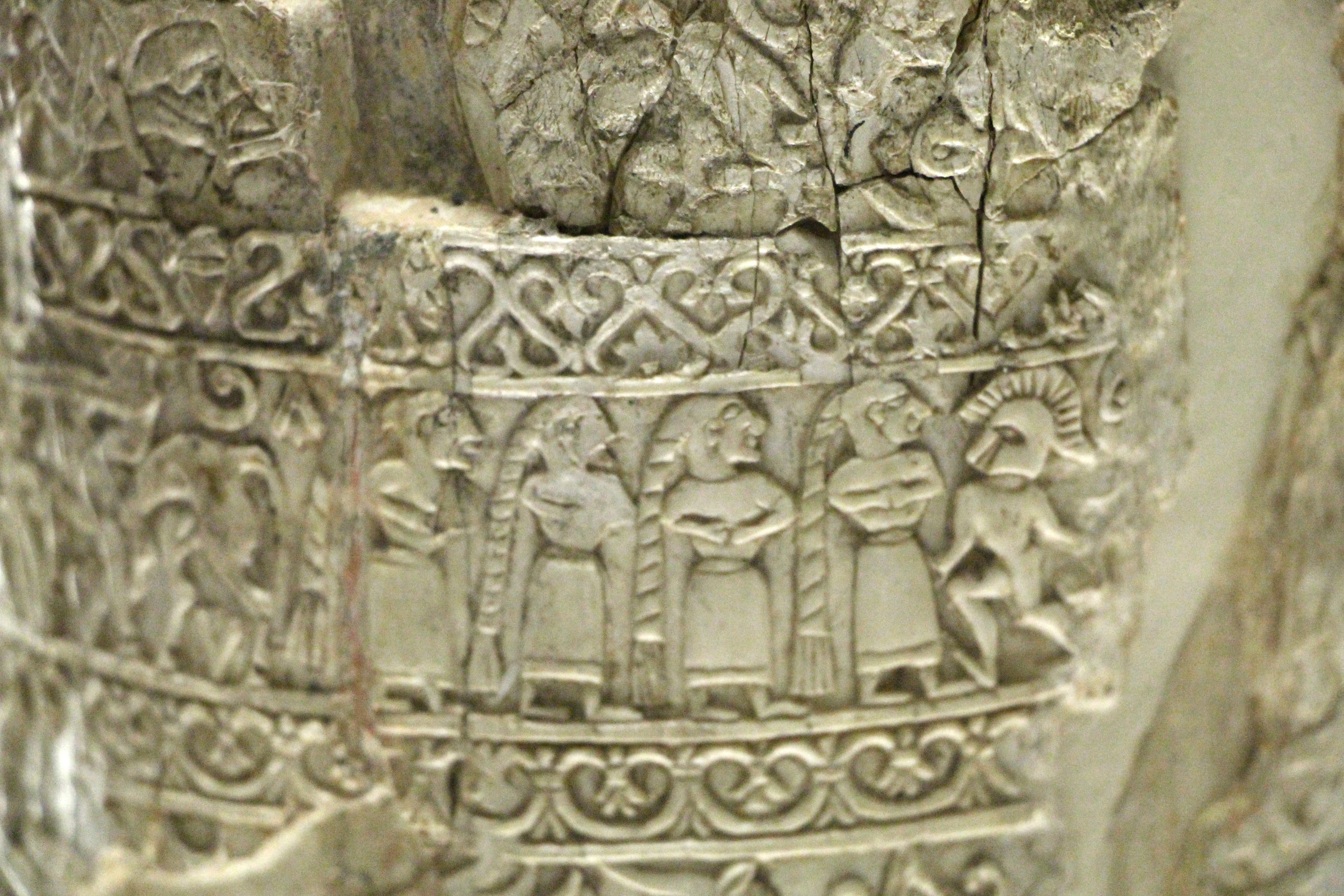 Etruscan art in the Museo archeologico nazionale (Florence)